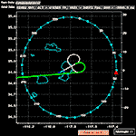 Clos-in tracking of STS-125 at Edwards AFB on orbit 197.